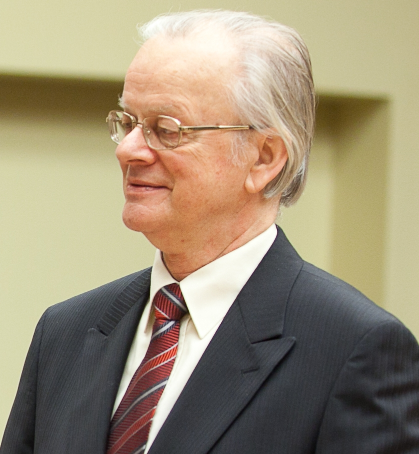 Juris Ekmanis in "Cicero" and "Murphy" awards presentation ceremony (2012)